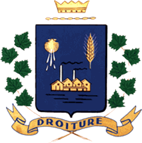 Armoiries officiel de la ville de Saint-Rémi